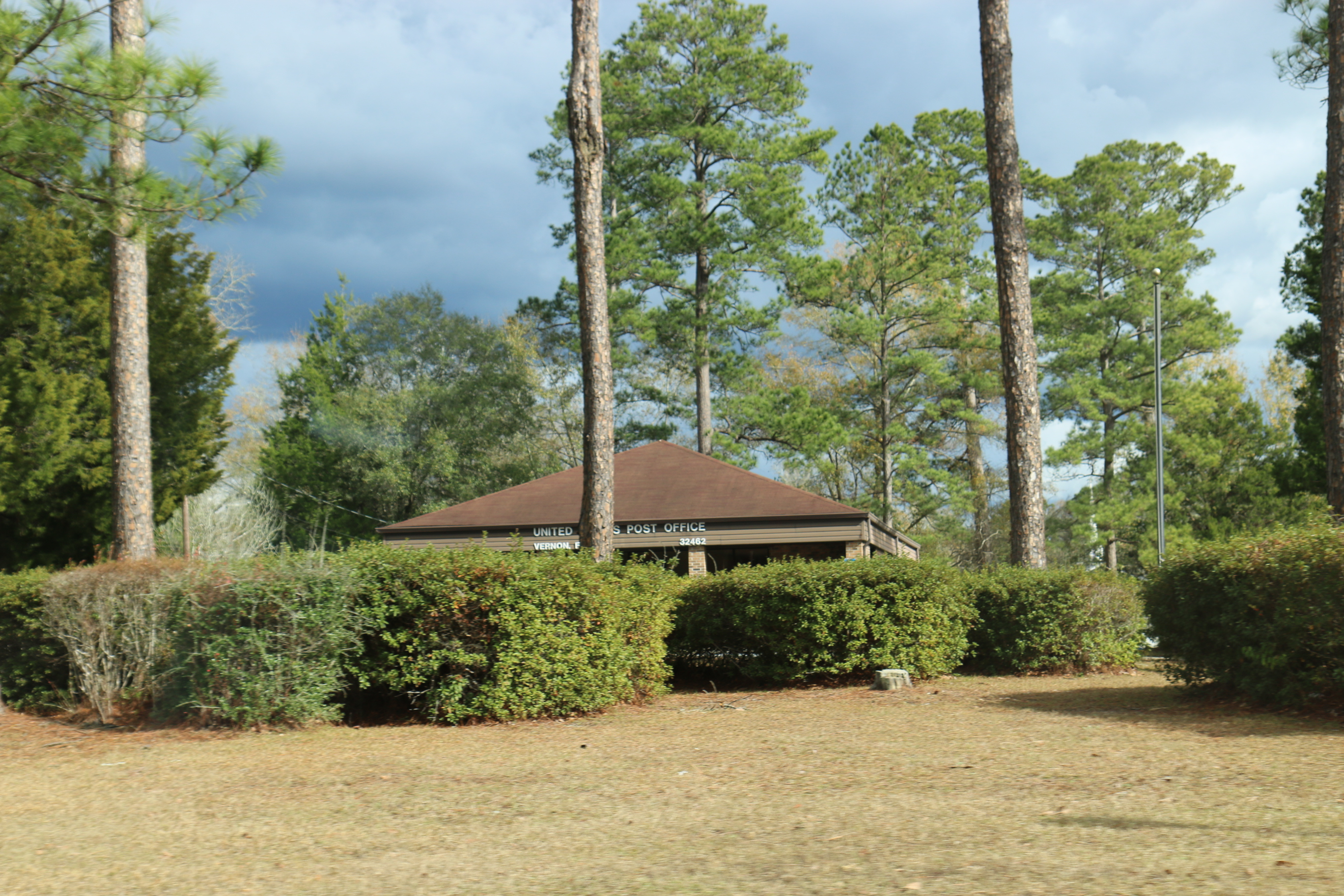 The post office in Vernon, Florida.